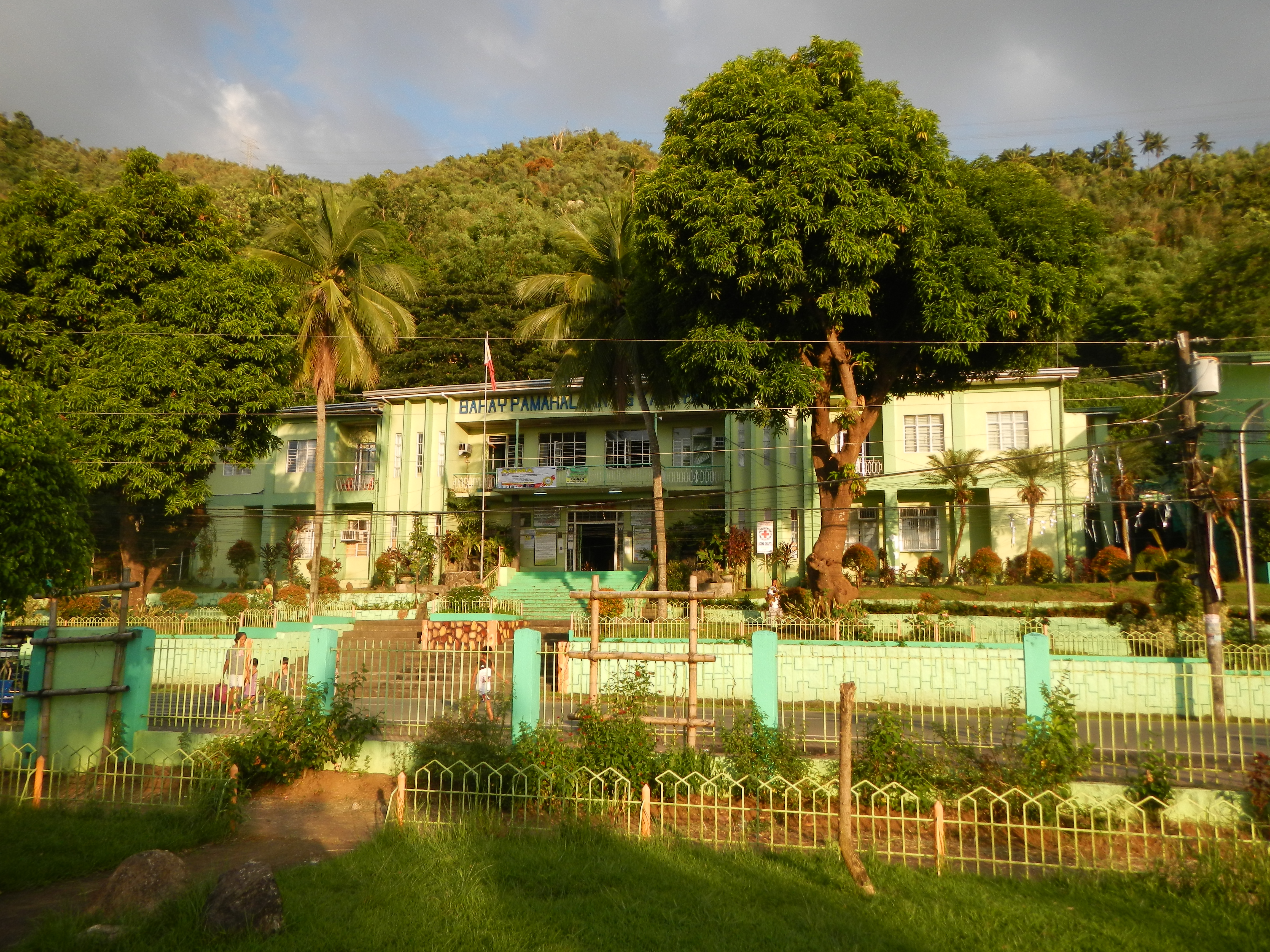 UploadWizard photos --- (general description of landmarks, heritage, culture, comprehensive, photography) of – Bahay Pamahalaan ng Kalayaan - Town hall and surrounding Plaza Lagumbay, Lagumbay Gym, Centennial of the Town of Kalayaan Monument and Marker, Marble Stone, the WWII and Veterans Memorial, Monument, San Juan National High School and scenery of ---- Kalayaan, Laguna[1] (third class municipality in the province of Laguna,[2] Philippines; latest census, population of 20,944 people subdivided into 3 barangays.[3] Website [4] Geographical location: Laguna, Region 4, Philippines, Asia Geographical coordinates: 14° 21' 0" North, 121° 34' 0" East [5] Coordinates: 14°19'34"N 121°32'31"E; its highest elevations are from 400 to 418 metres).R.A. No. 1417